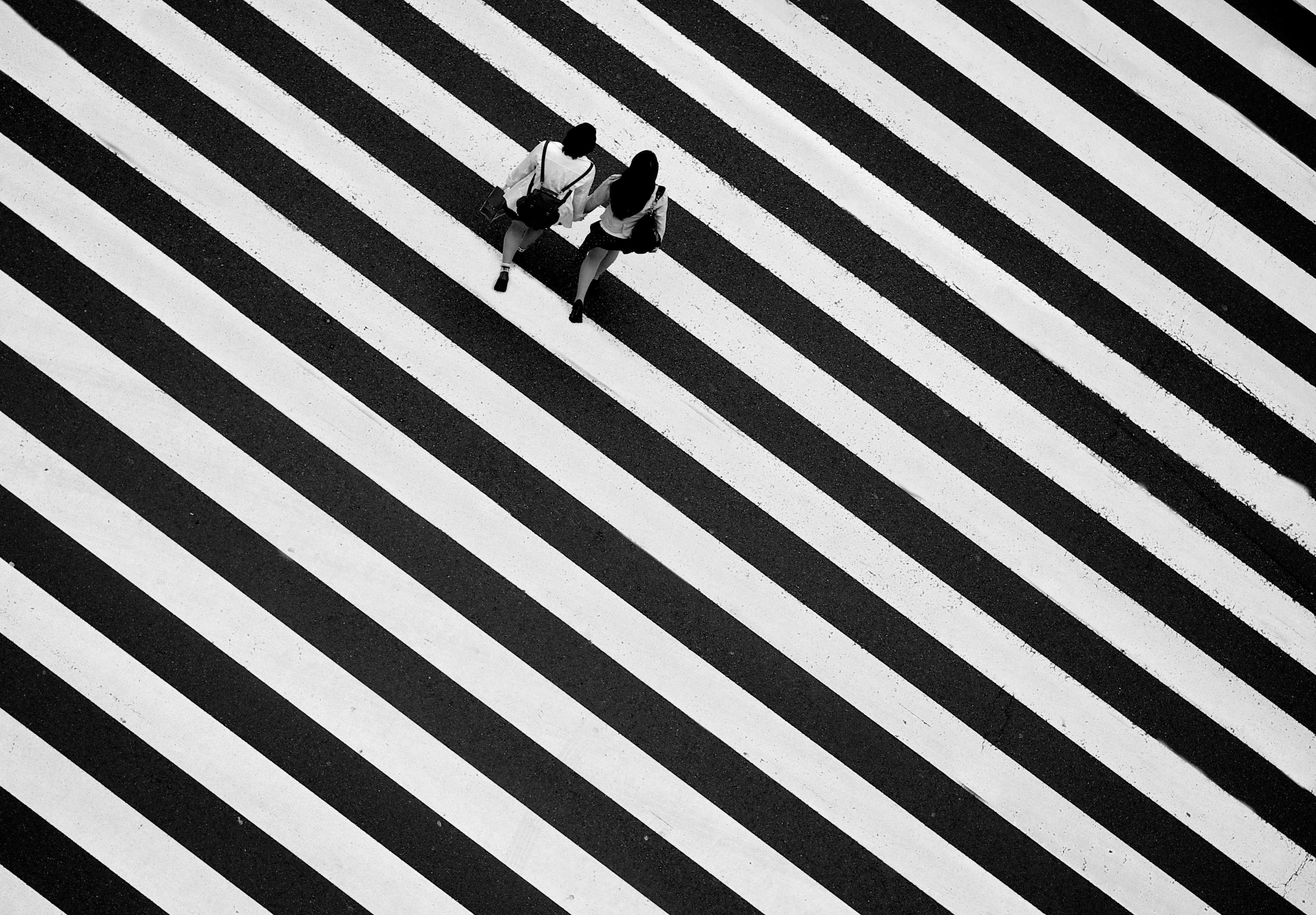 Photo taken by Magdalena Roeseler in Japan